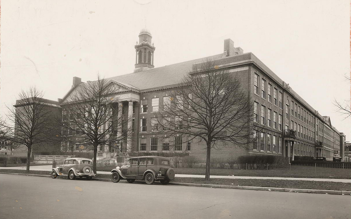 Boston Latin School - Exterior View 4, Avenue Louis Pasteur, Boston, MA. School building photographs circa 1920-1960 (Collection # 0403.002), City of Boston Archives